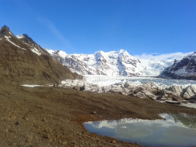 Peaks of Hrútfjallstindar